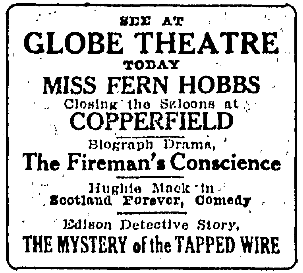 An advertisement for the Globe Theatre, featuring a reenactment of Fern Hobbs closing the saloons at Copperfield, Oregon, from January 1914